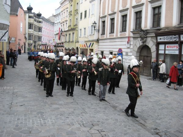 Civil Guards Freistadt